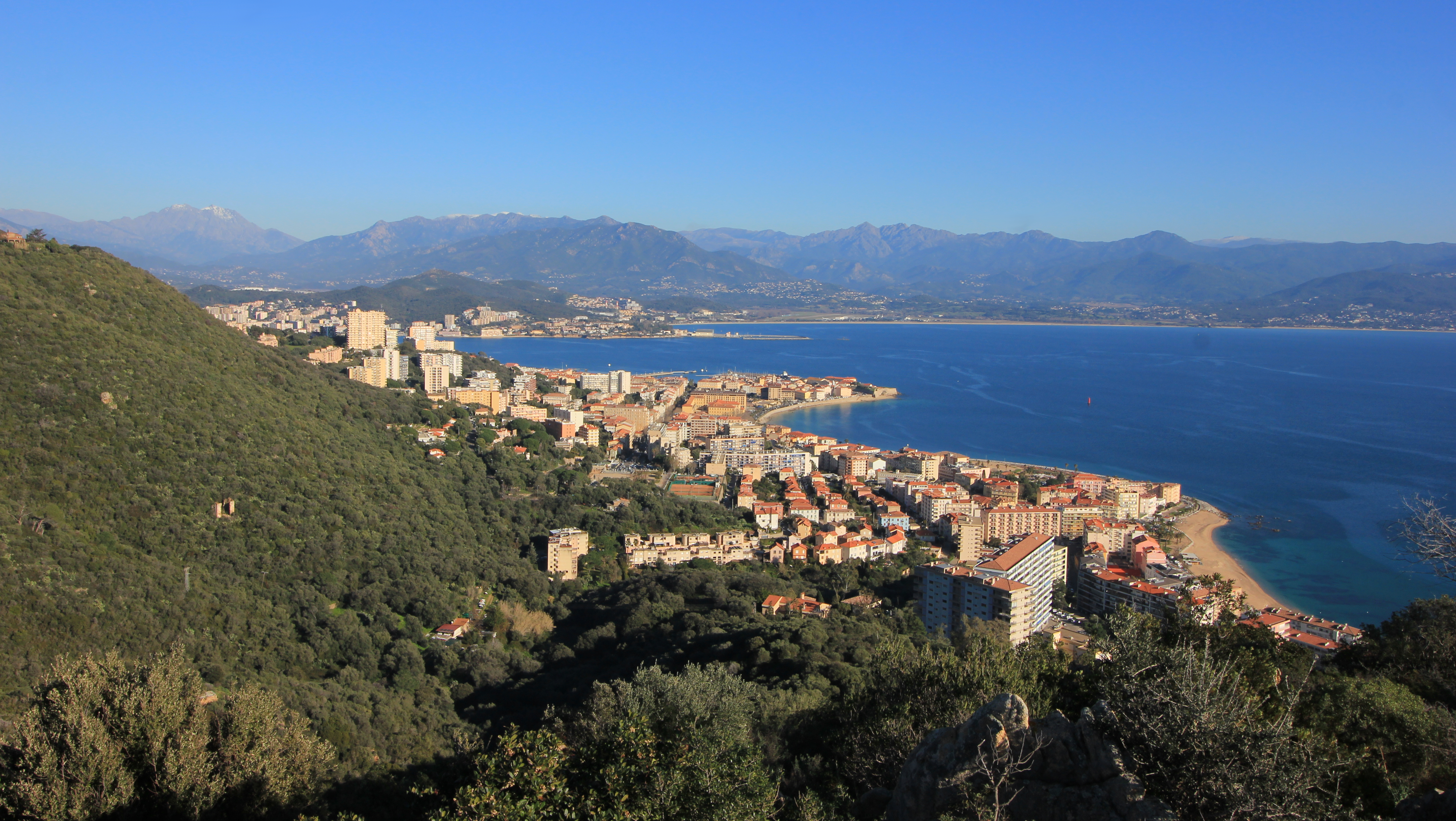 Aiacciu, Corse, seen from the west.